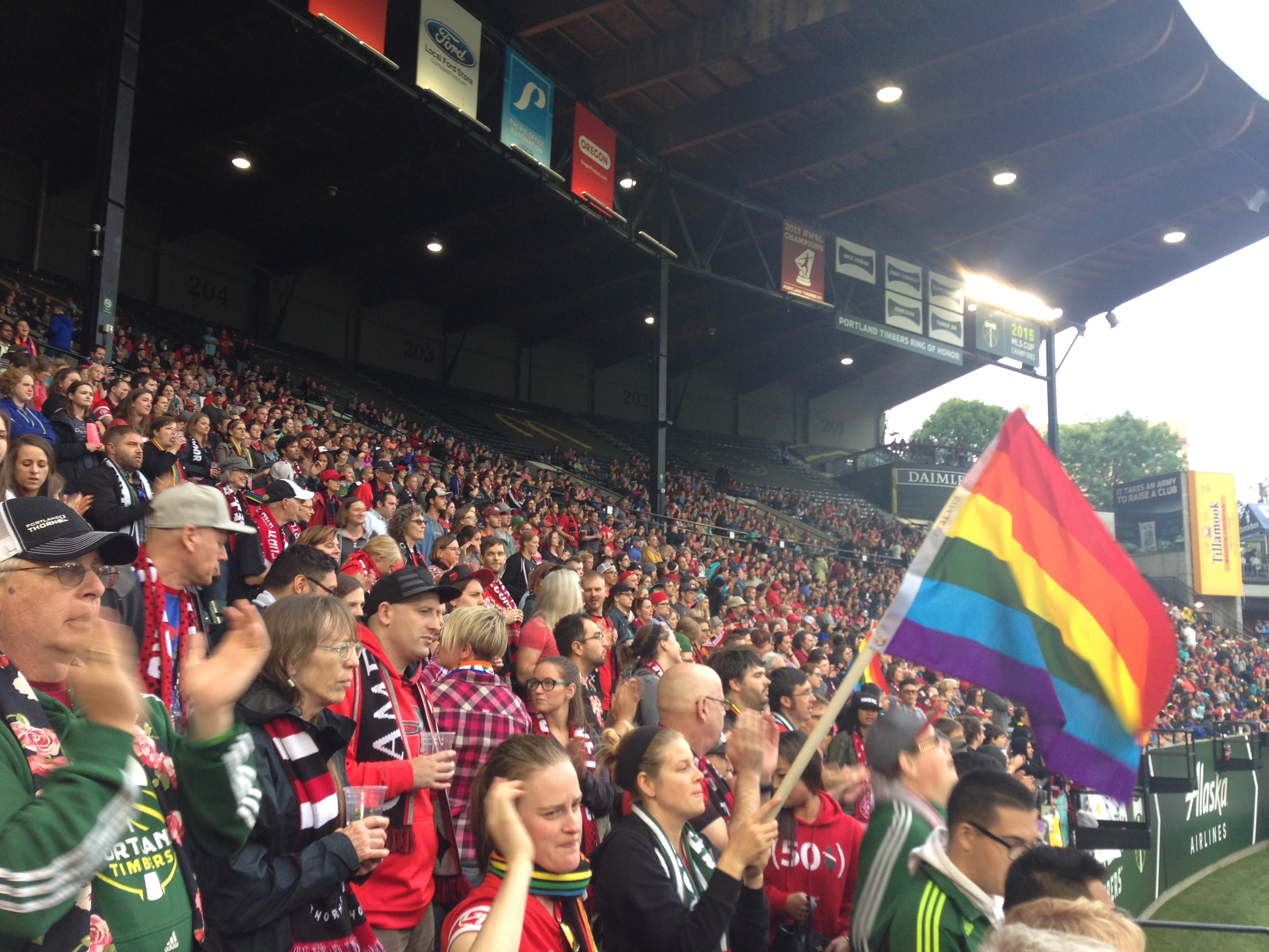 A fan at a Portland Thorns women's soccer game in Providence Park waves a rainbow flag in support of LGBT visibility.